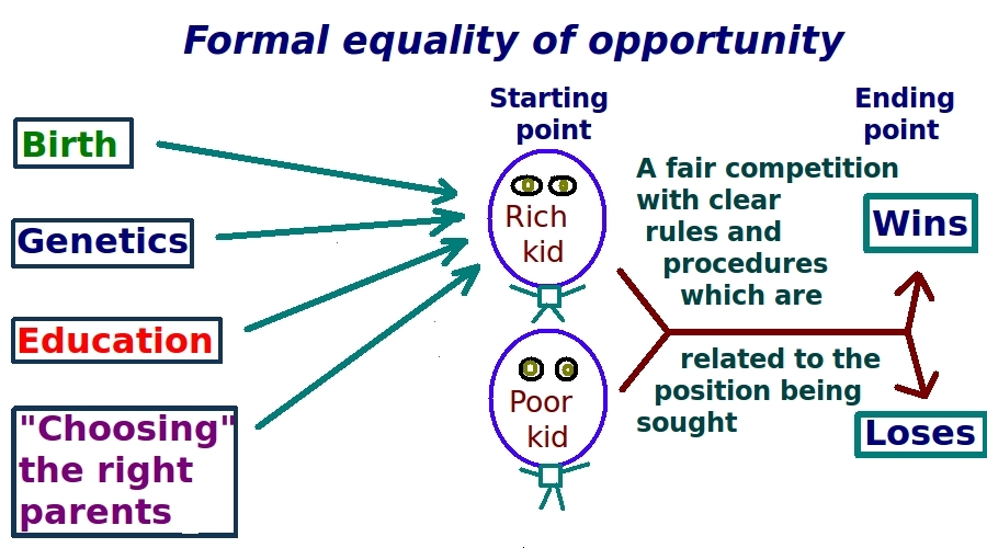 The "formal" conception of equality of opportunity focuses on fairness at the competition stage for a post or position, with clear rules to judge the most able person with criteria related to the position sought. The "starting point" is when two persons apply for a position; and theoretically either applicant may win the position.